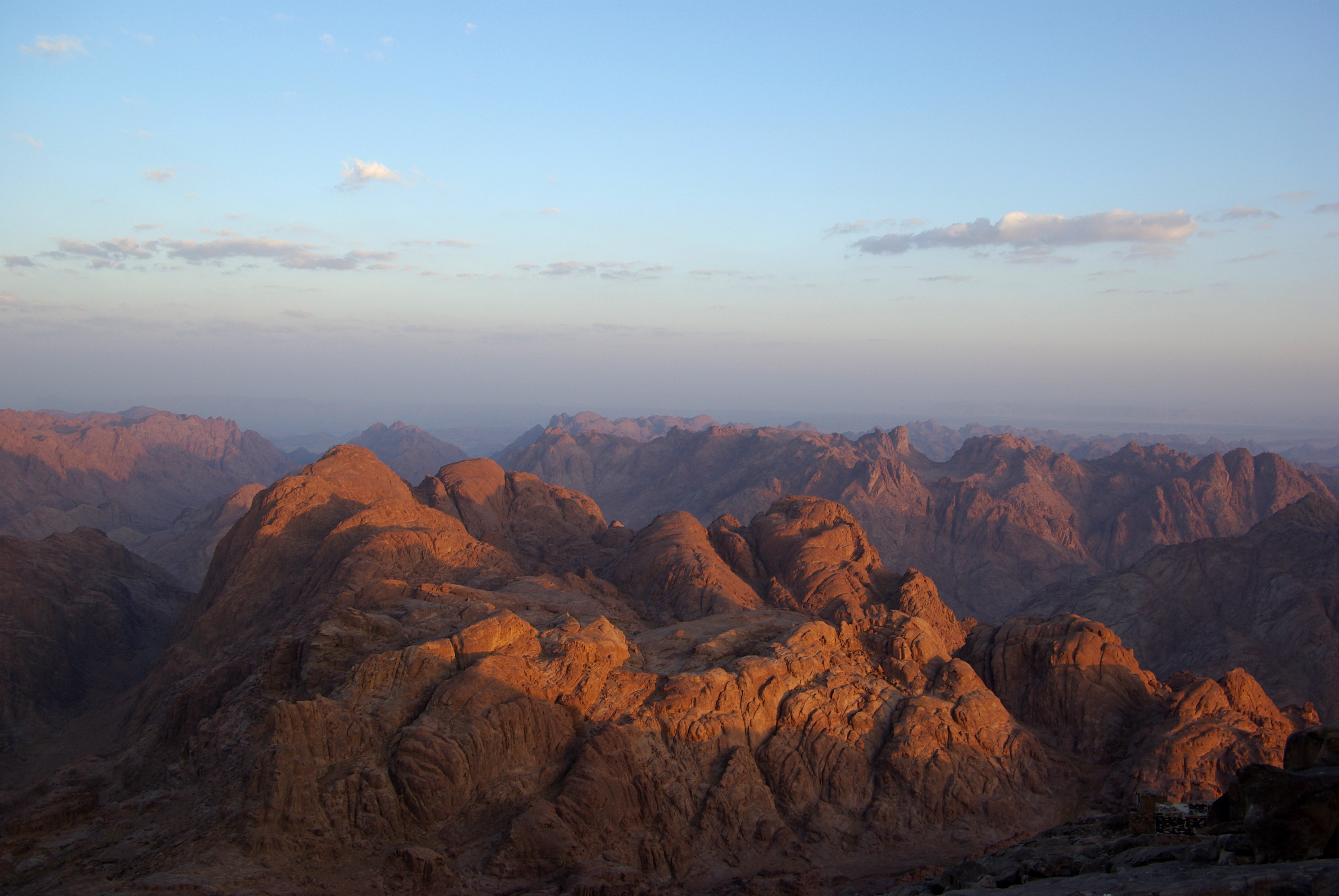 Sinai peninsula, view from Mount Sinai